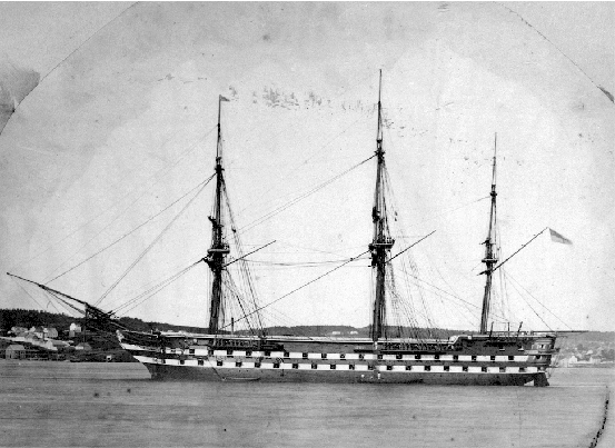 HMS Ganges at anchor in Victoria, BC. Source Website: Image: Author undetermined, according to source archive, date "188-", according to source archive. Public domain work despite the claims of BC Archives